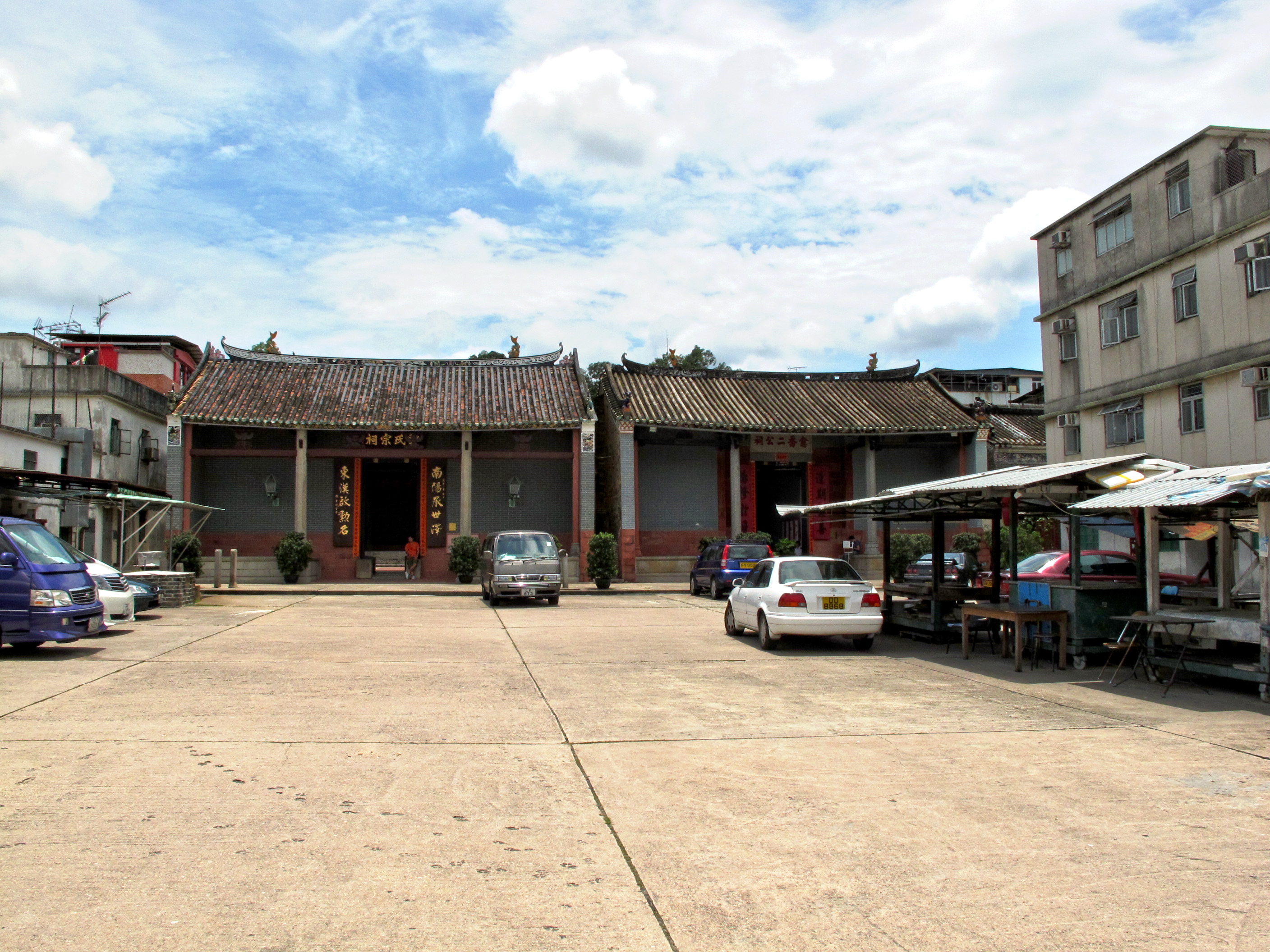 Ping Shan Tang Ancestral Hall (left) & Yu Kiu Ancestral Hall (right).中文（香港）: 屏山鄧氏宗祠及愈喬二公祠。